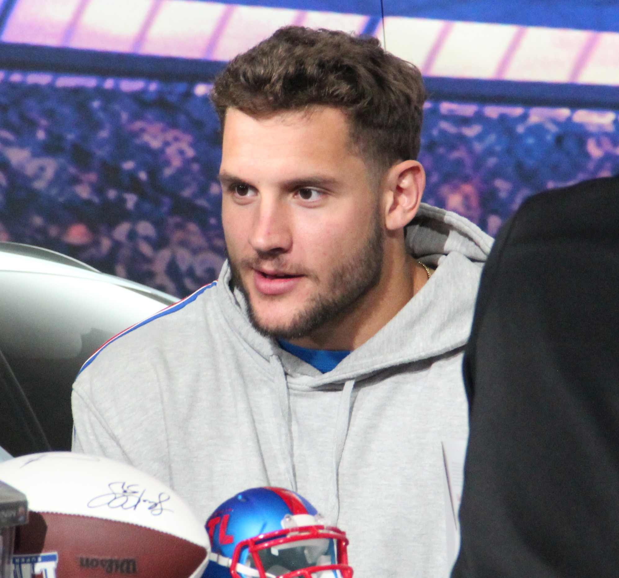 Nick Bosa at the Super Bowl Experience at Super Bowl LIII